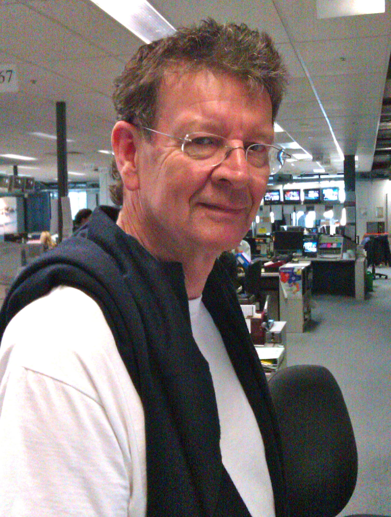 Red Symons, Australian broadcaster and musician